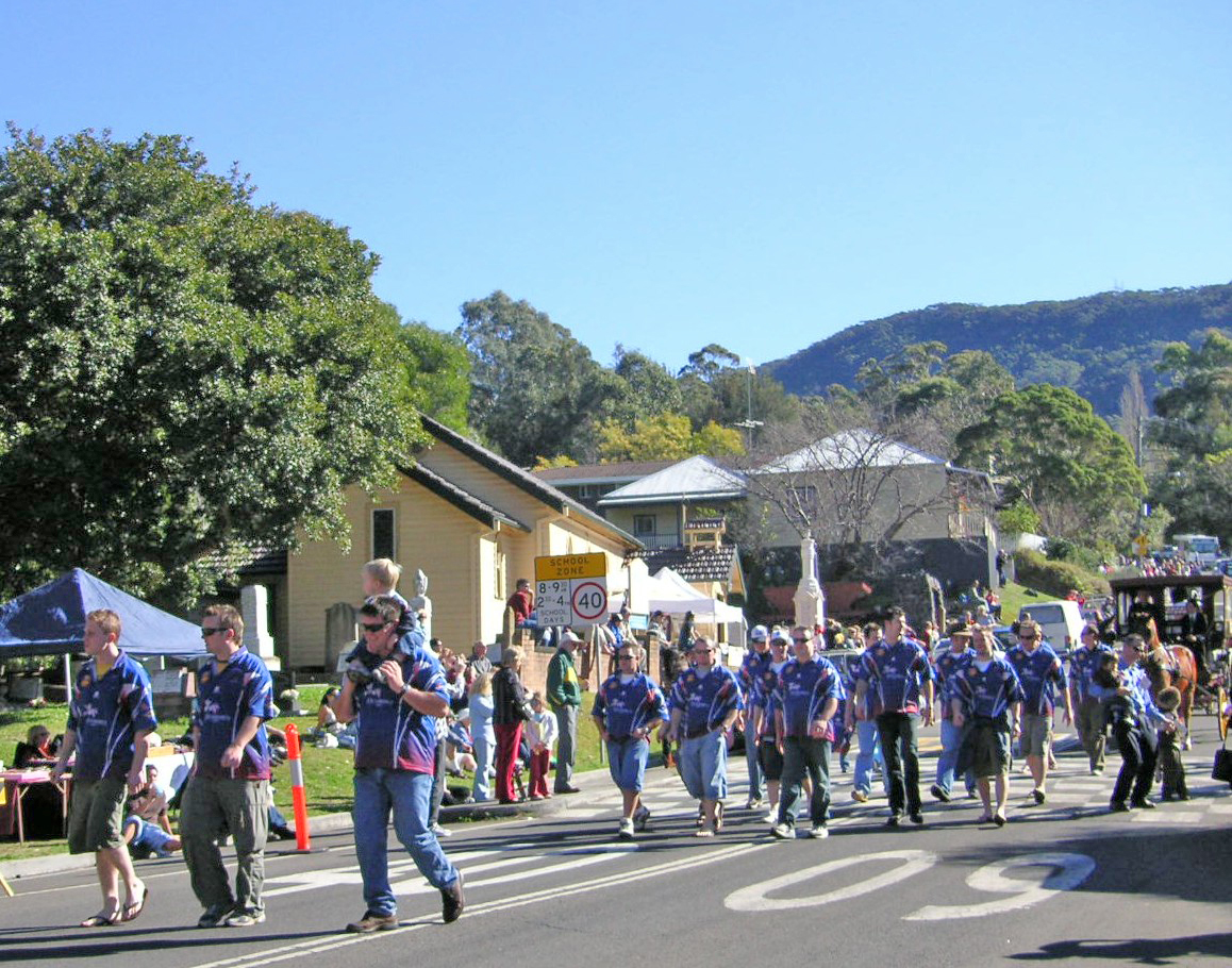 The Dendrobium Mines Football Team marching past the memorial to the 96 men and boys who died in the Mt Kembla mining disaster, 1902.